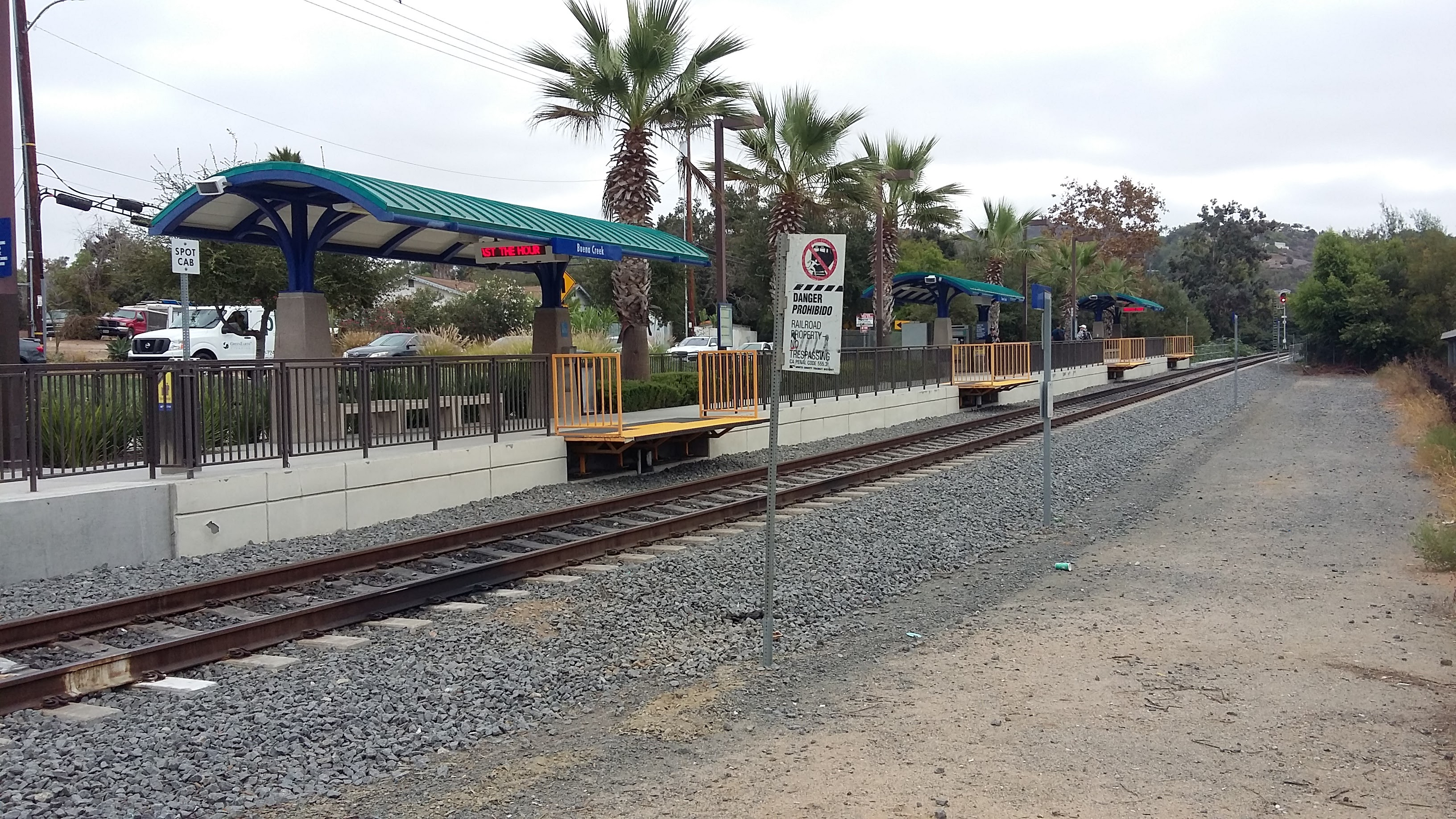 Shelters and platforms at Buena Creek station